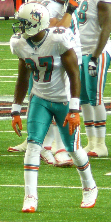 If used somewhere other than Wikipedia, Nelson, by name.